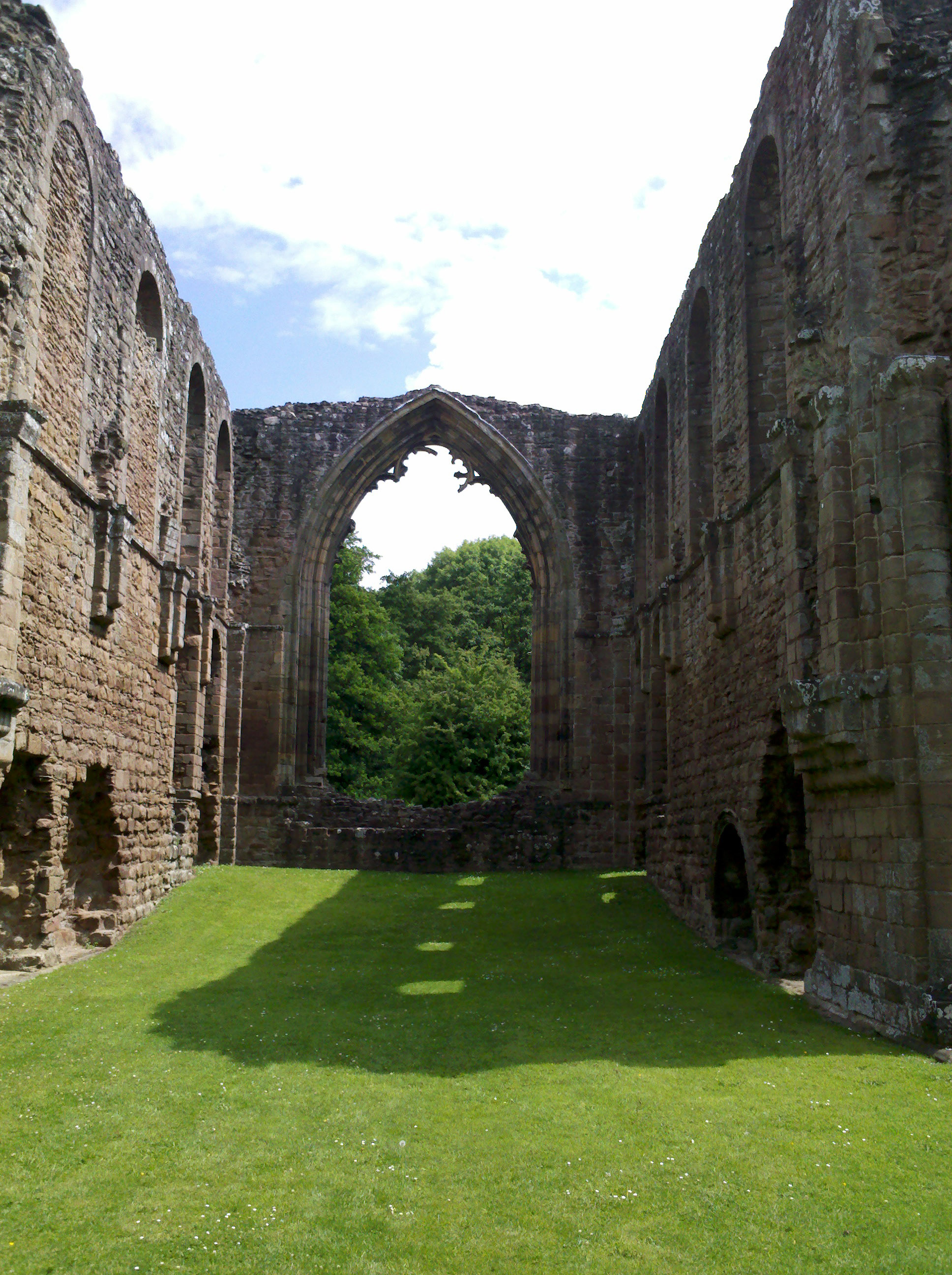 Chancel